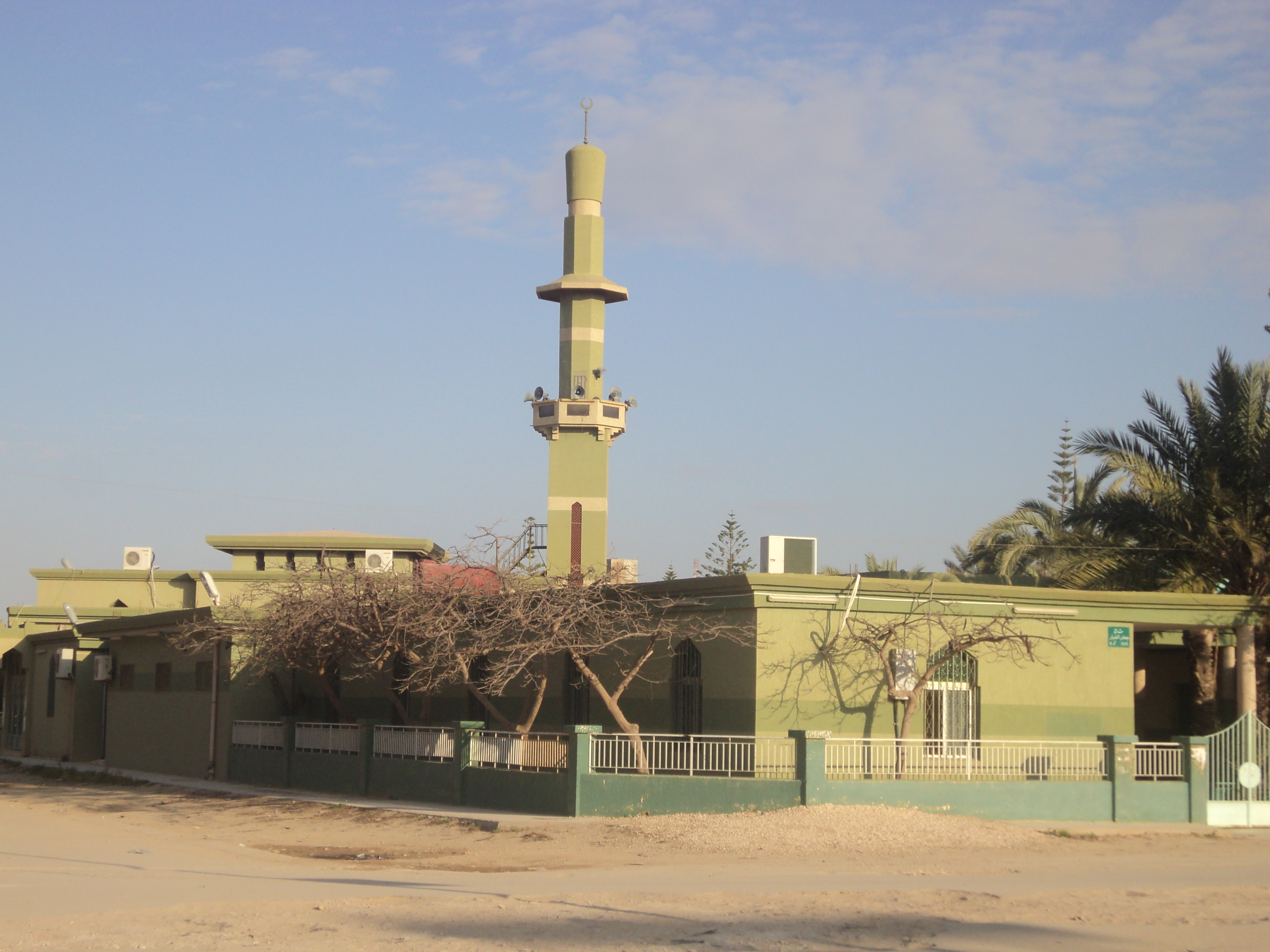 Rabi'a Al Adawiya mosque, or The Green mosque (now Al Imam Al Albani mosque), Benghazi